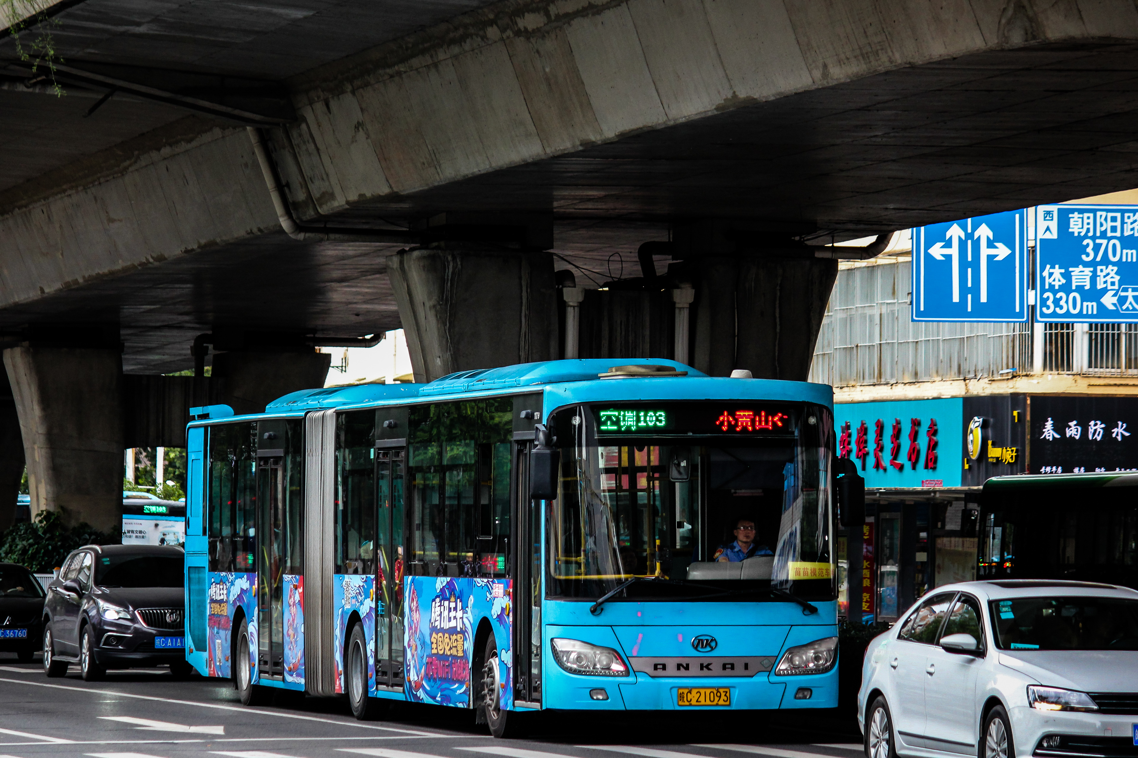 Bengbu Bus No.103 with New AD